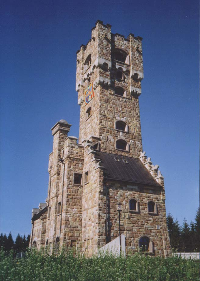 Watch tower on the hill Wetzstein in Thuringia, exact copy of watchtovwer on Praděd, that collapsed in 1959